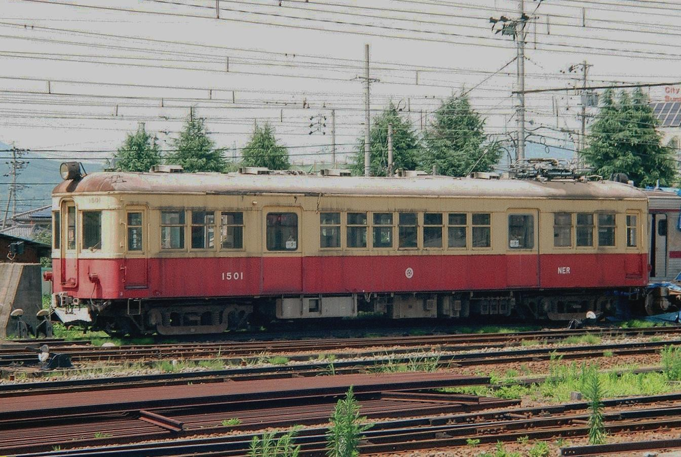 Nagano Electric Railway Type 1501 Train(Japan).